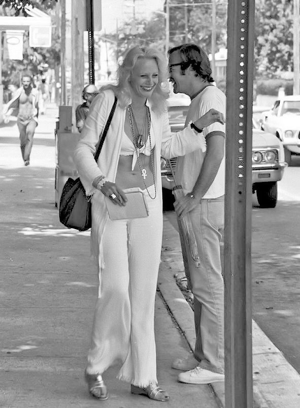 Actress-comedienne Sylvia Miles on Duval Street during the fliming of "92 in the Shade" in November 1974. From the Dale McDonald Collection.